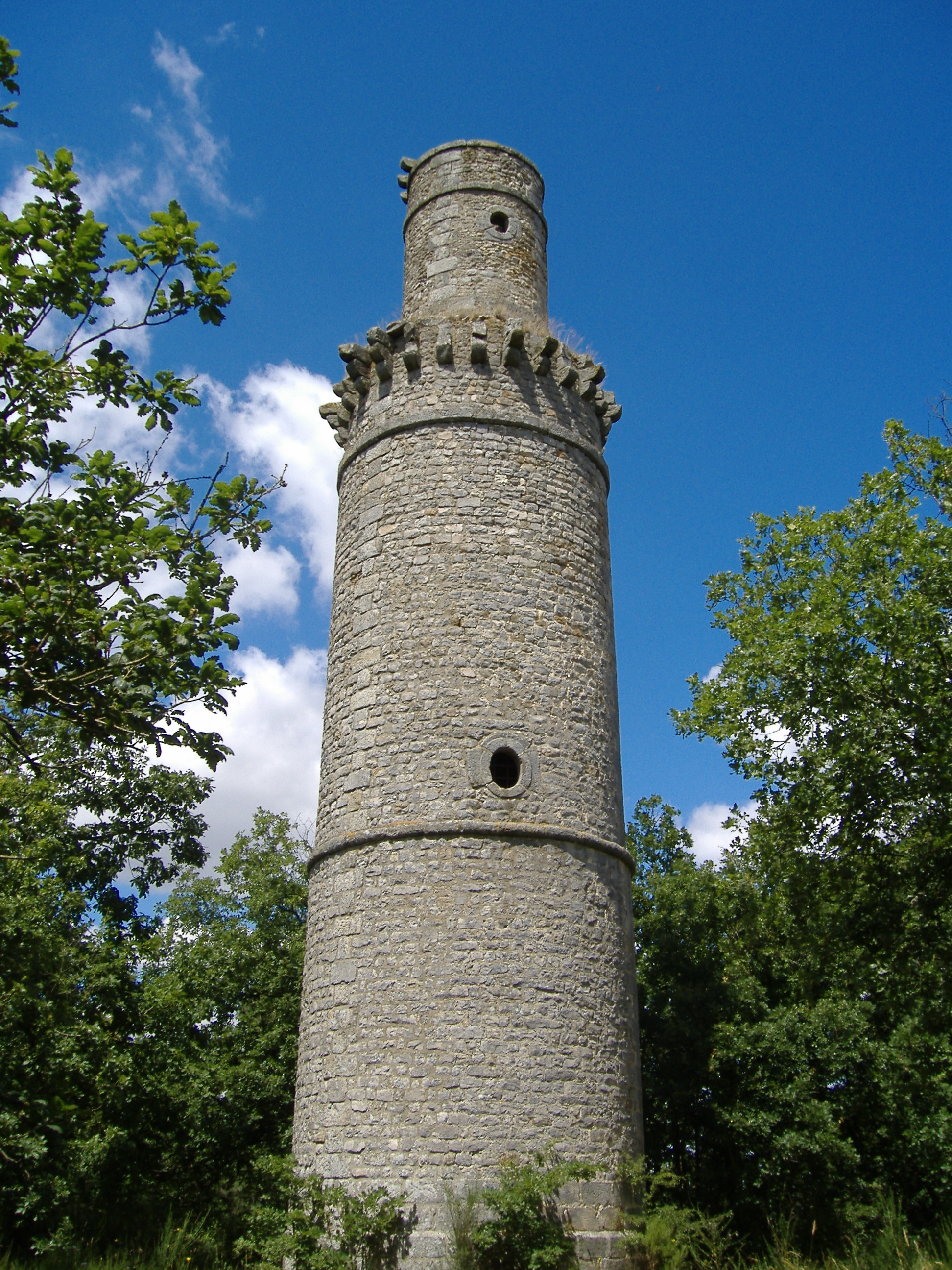 Pocancy Tower in Janville-sur-Juine (Essonne)